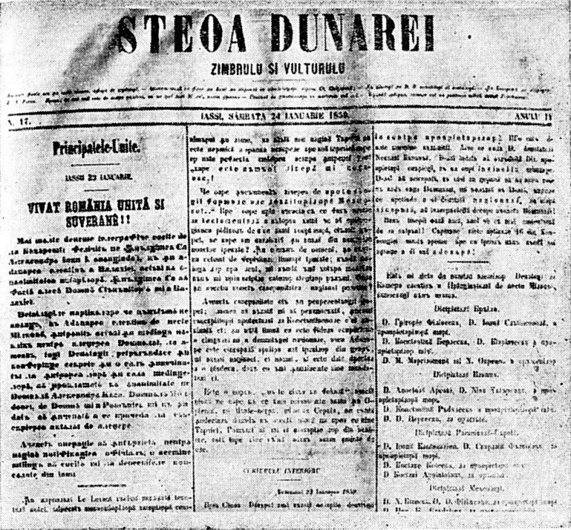 Issue of Steaoa Dunarei. Zimbrul şi Vulturul from January 24, 1859